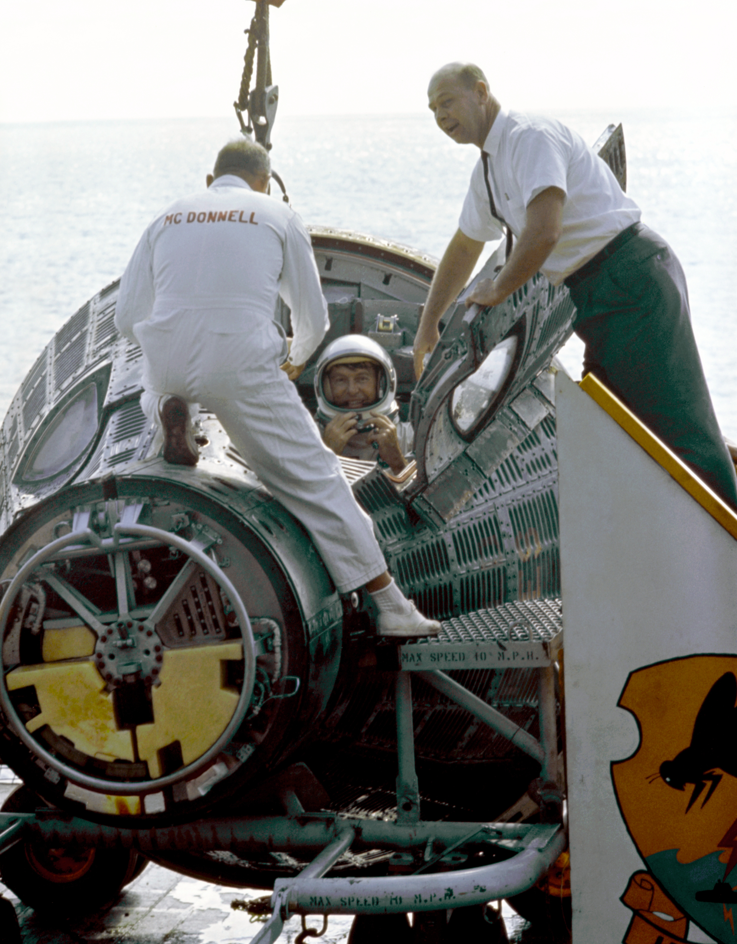 Astronaut Walter H. Schirra Jr. (on right), Command pilot, climbs from his Gemini VI spacecraft as he and Astronaut Thomas P. Stafford (not in view) arrive aboard the aircraft carrier U.S.S. Wasp. They are assisted by various McDonnell technicians. The Gemini VI spacecraft splashed down in the western Atlantic recover area at 10:29 a.m. (EST) December 16, 1965, after a successful 25 hr. 52 minute mission in space.